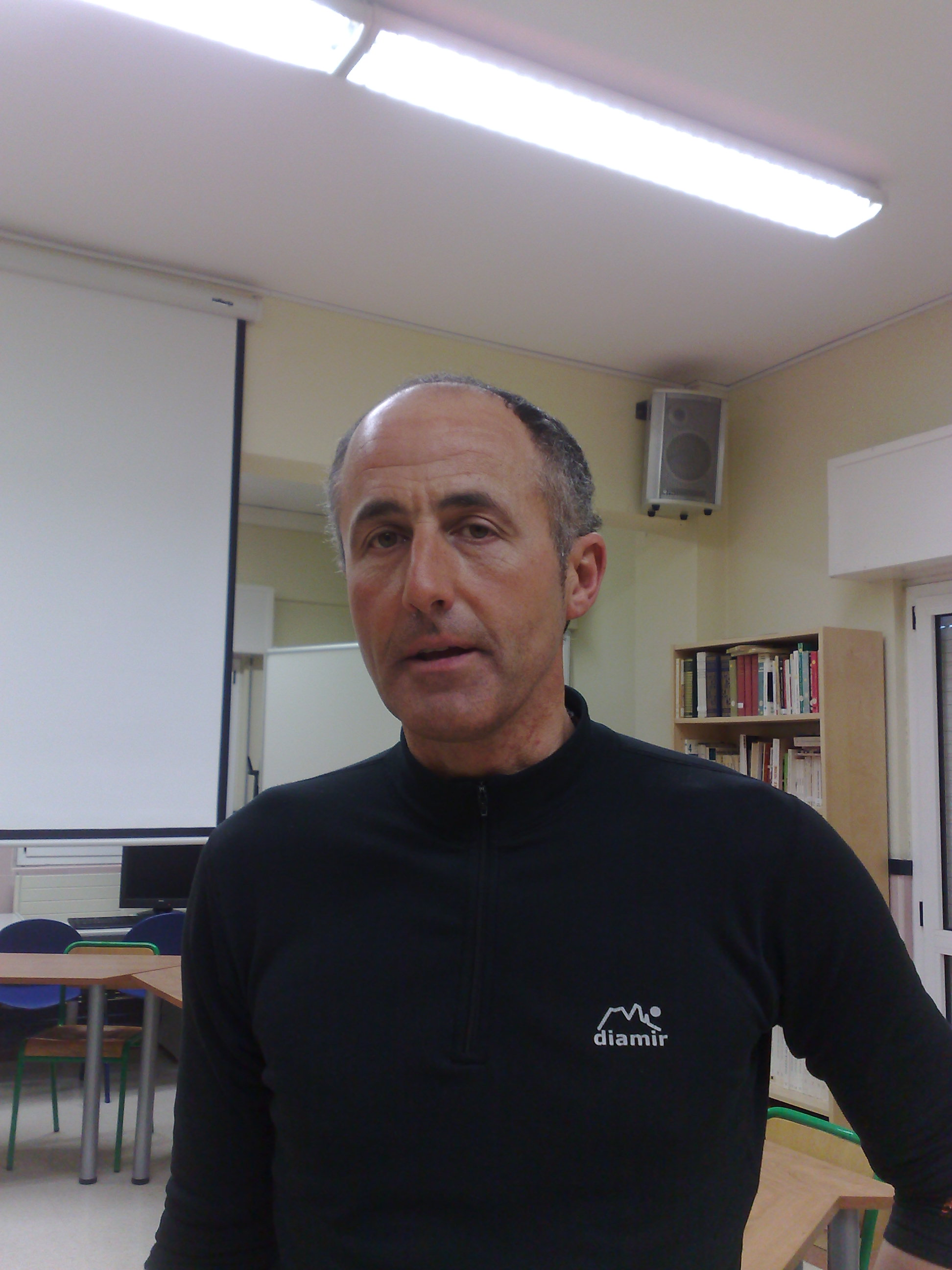 Julen Reketa climber from Laudio, Basque Country.